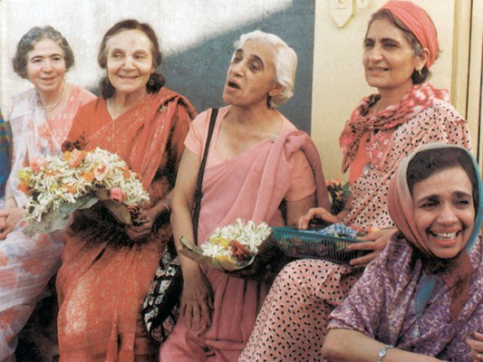 Mandali in Meherazad, India.